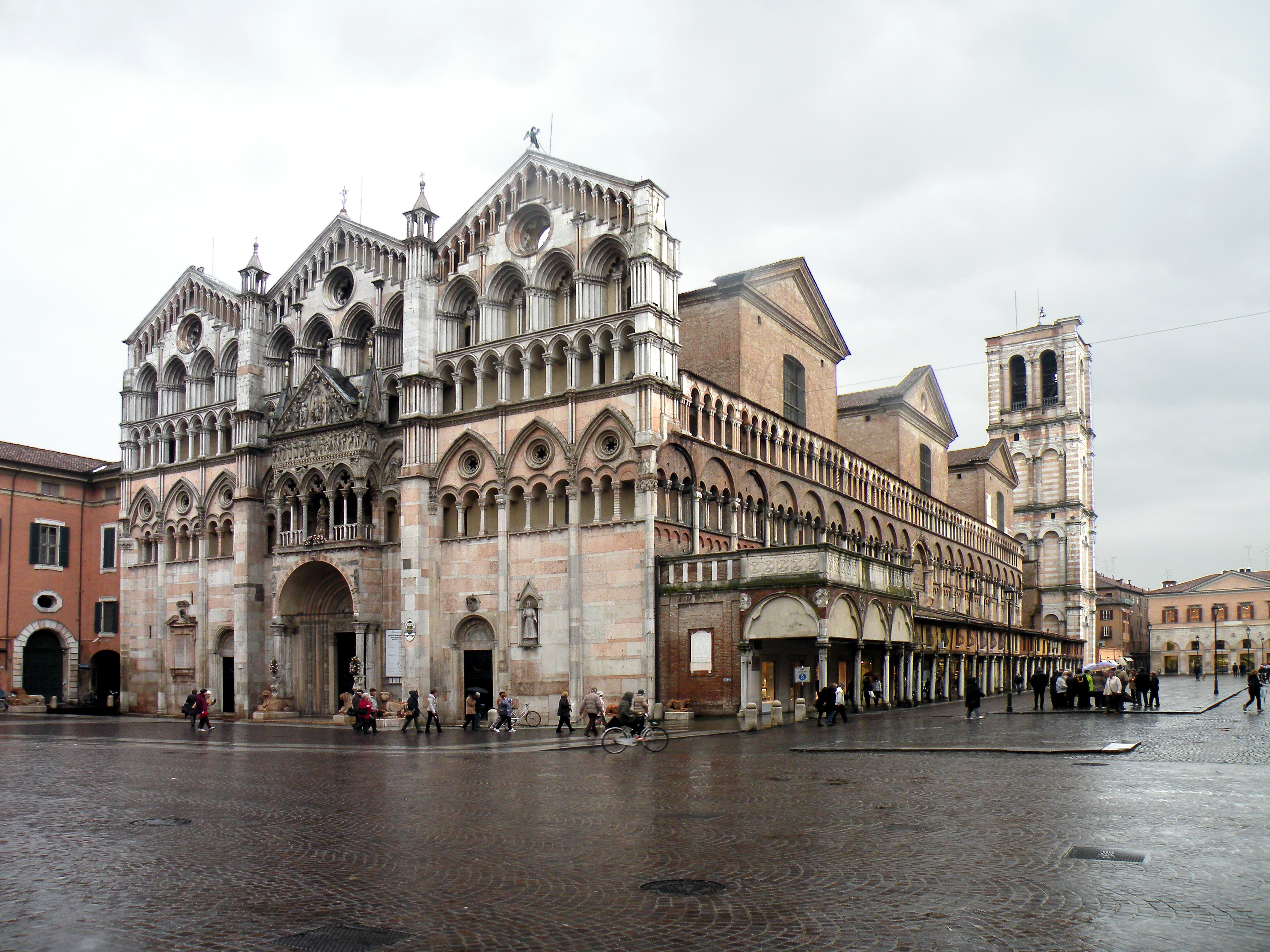 Ferrara.Cathedral.